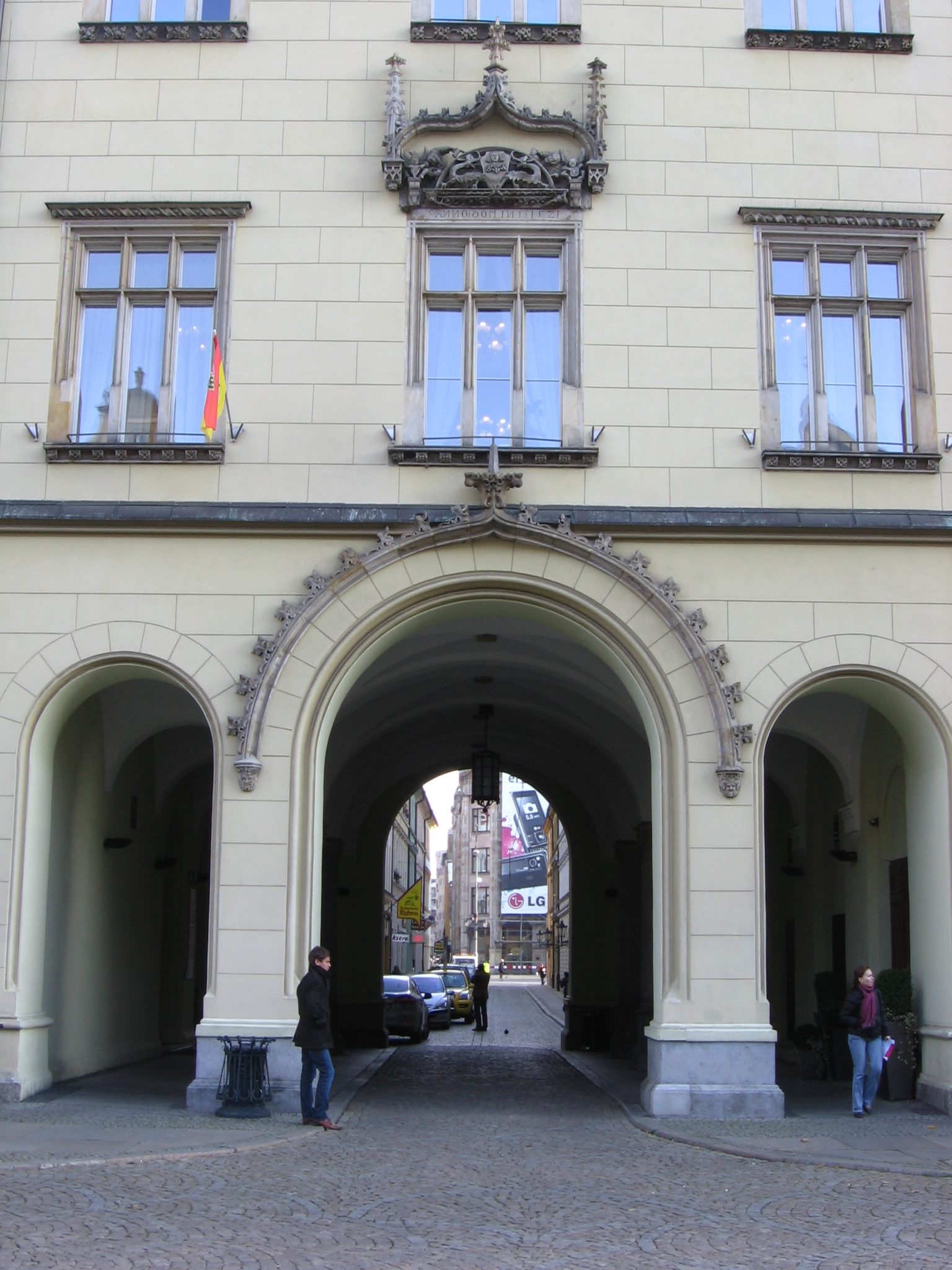 New Town Hall in Wrocław, Sukiennice Street Gateway seen from the West